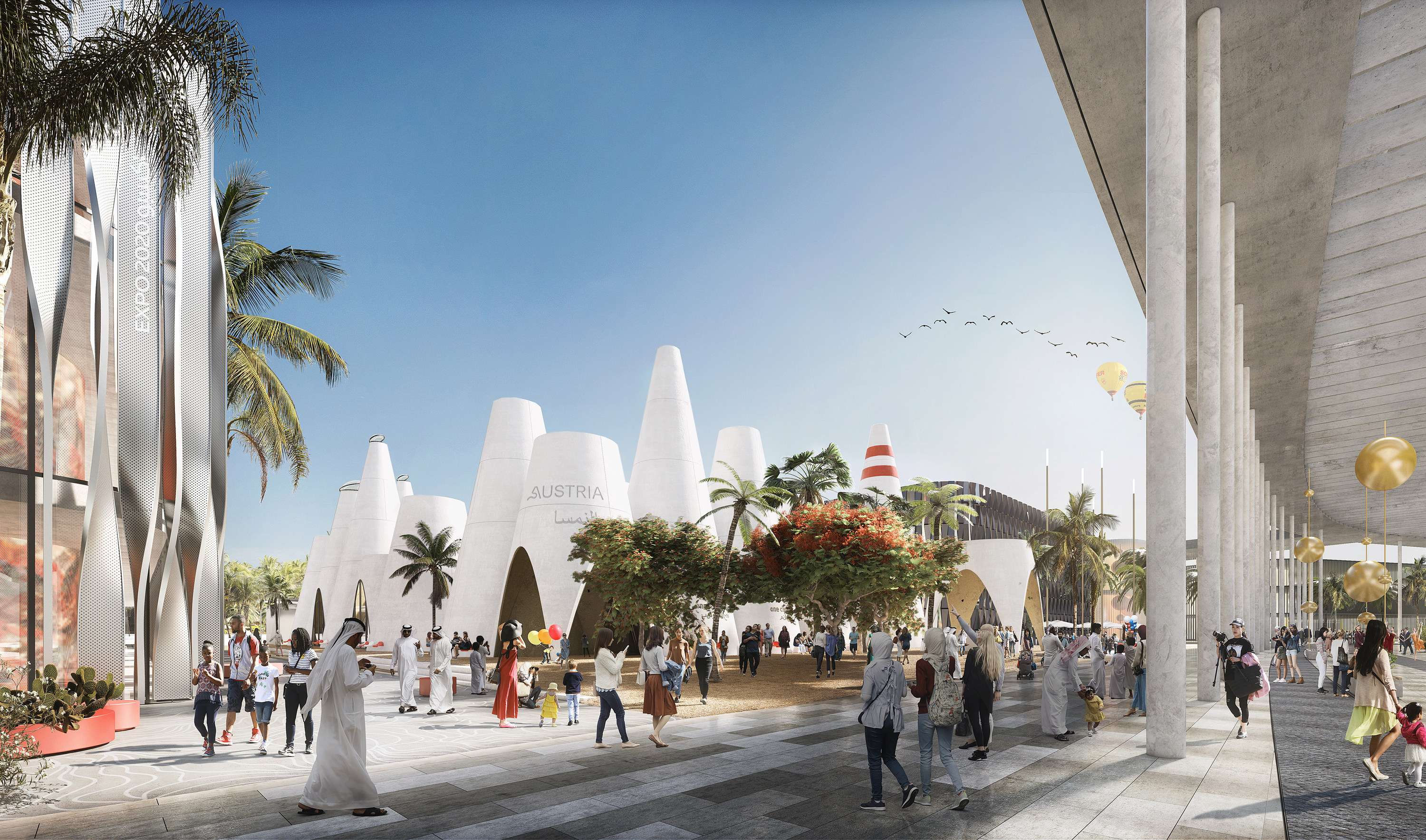 the austrian pavilion offers the necessary space to enter into dialogue with the essential questions for a common and better future. the austrian pavilion poses one of the most important questions about the future and gives a possible answer: careful and respectful use of our earthly resources.